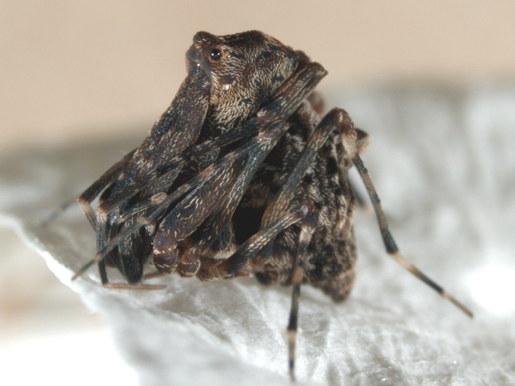 Austrarchaea griswoldi from Eungella National Park: female, lateral view